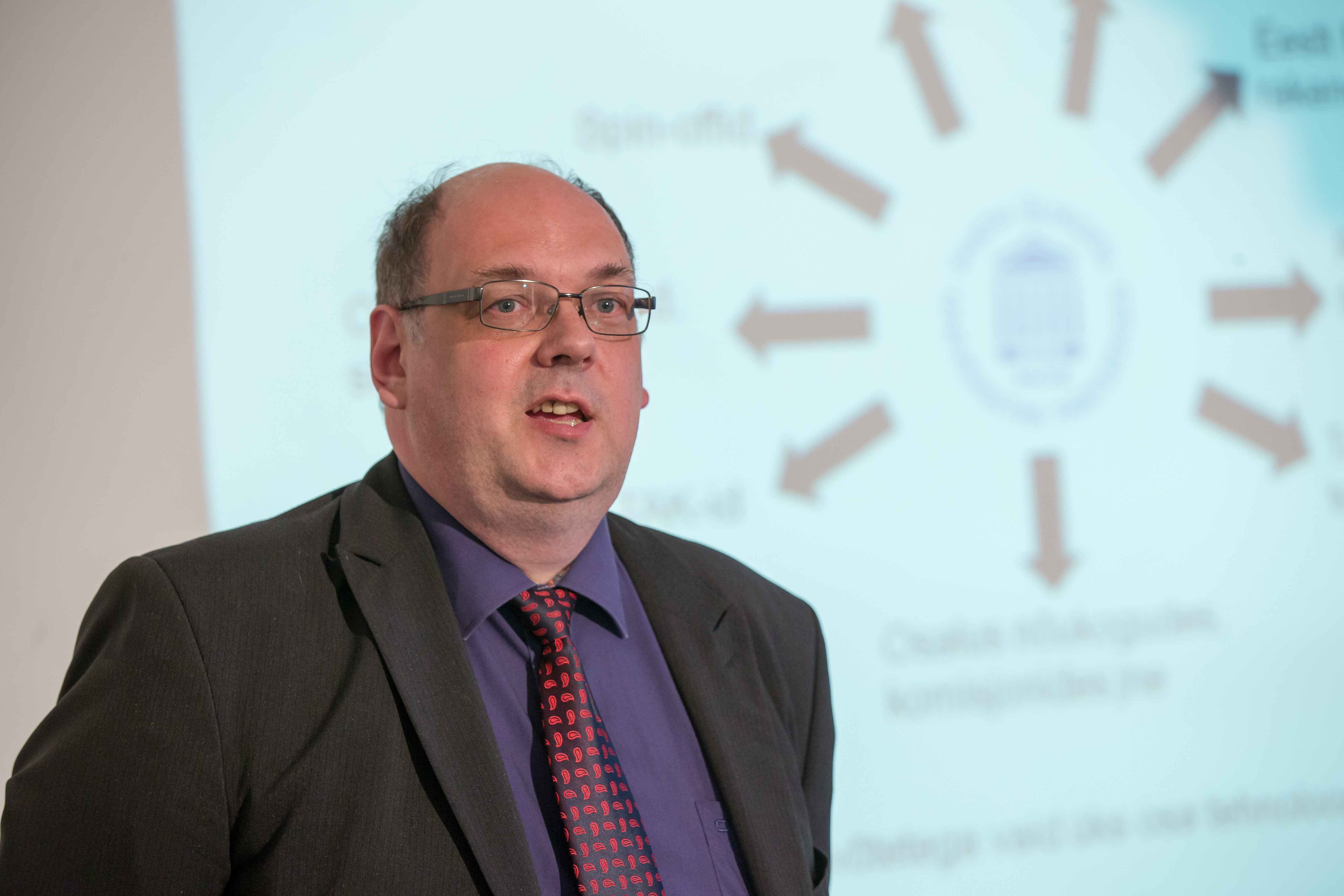 Council of the University of Tartu seminar "Risk management and developing of entrepreneurship inside the university". Erik Puura.